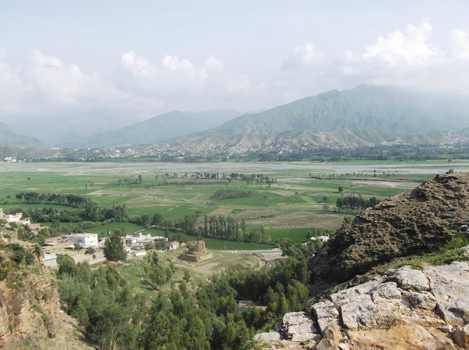 Nawagai (Gumbatuna) This is a photo of a monument in Pakistan identified as the KPK-76